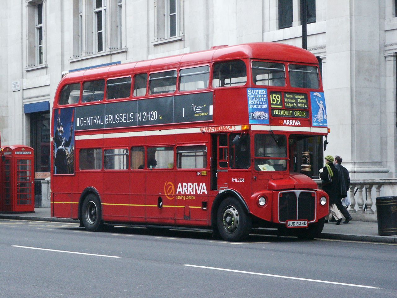 Arriva London Routemaster bus RML2538 (reg. JJD 538D), seen here working route 159 in 2004.